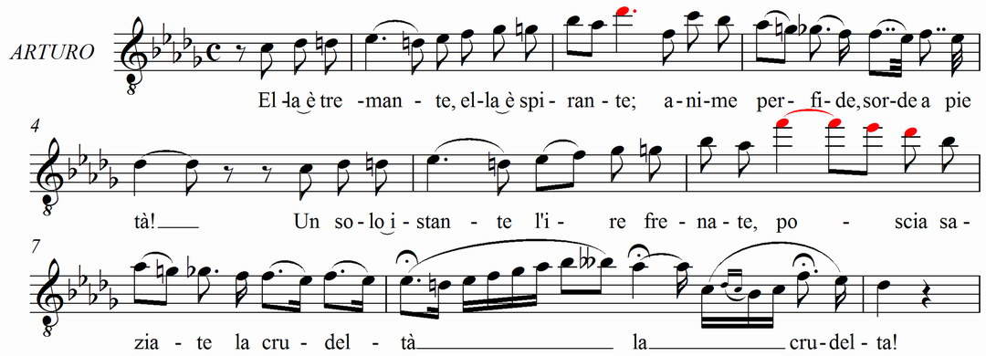 An excerpt from "Credeasi, misera" from act 3 of Vincenzo Bellini's opera I puritani, illustrating high F5 in tenor repertoire